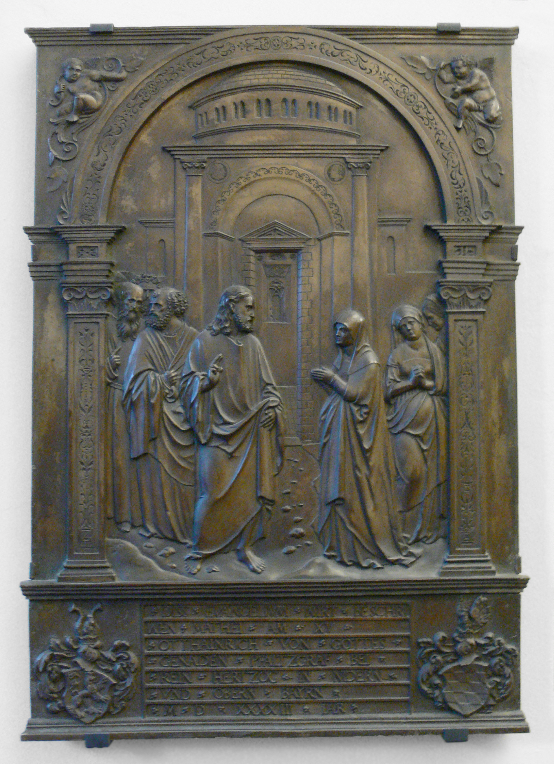 Hans Vischer: Christ and the woman of Canaan (Mat 15, 28: „Great is thy faith“), Nuremberg 1543; bronze Bayerisches Nationalmuseum München, Inv. Nr. R 555, aus Schloss Neuburg an der Donau